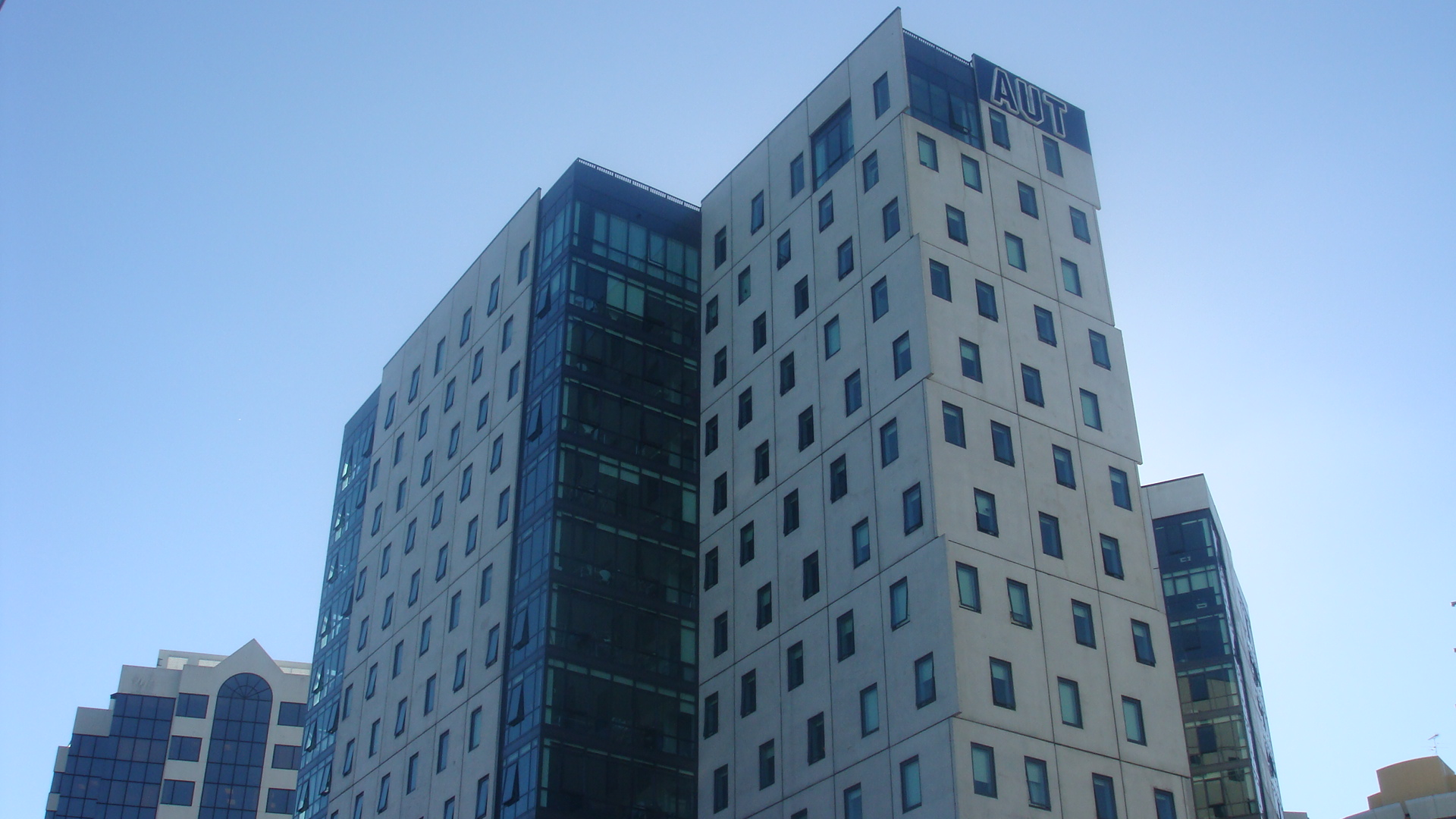 Wellesley Student Apartments (WSA), 8-10 Mount Street, Auckland. Flatting style accomodation provided by Auckland University of Technology (AUT). Taken from Symonds Street.